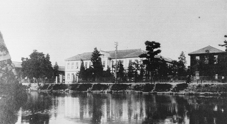 Shizuoka Normal School